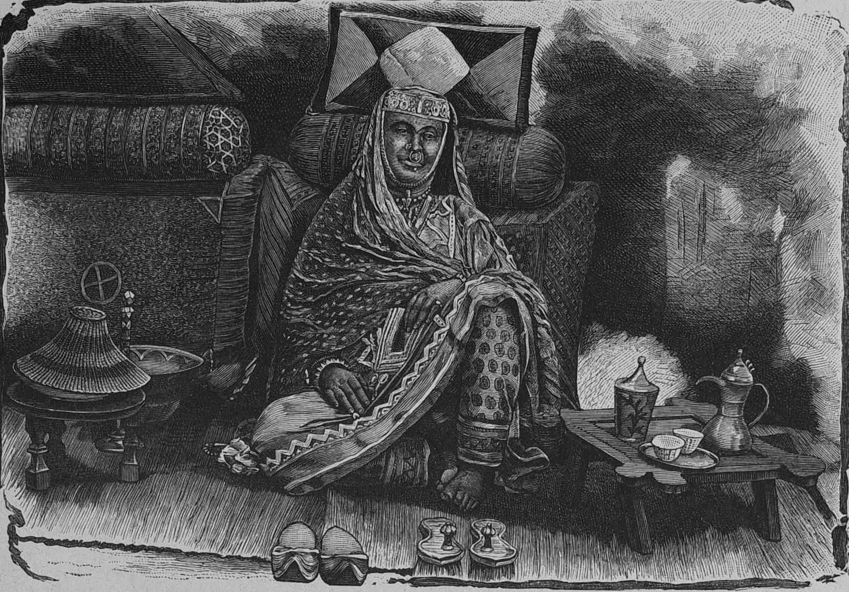 caption: "Vornehme Araberin in Sansibar."